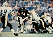 A football card from the 1986 Jeno's Pizza NFL football card stickers set of Chicago Bears running back Walter Payton rushing the ball against the New Orleans Saints on October 7, 1984, breaking the NFL's all-time rushing record. The card is numbered #12 in the set. The back of the card reads: THE NUMBER ONE RUSHER IN NFL HISTORY Elusive Walter Payton runs out of the arms of a New Orleans defender on his way to a 154-yard day in 1984 that sent him past Jim Brown to become the NFL's all-time leading rusher. Payton entered the 1986 season with 14,860 yards, more than a mile ahead of Brown's 12,312.